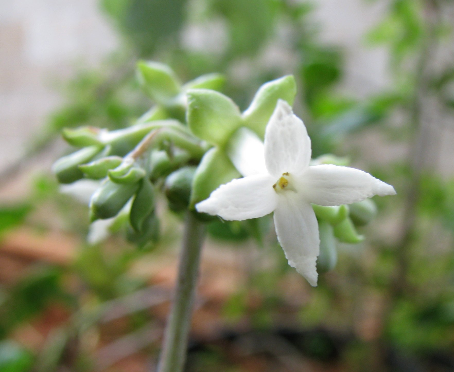 [syn. Hedyotis littoralis] Rubiaceae Endemic to the Hawaiian Islands Status: Vulnerable Oʻahu (Cultivated)